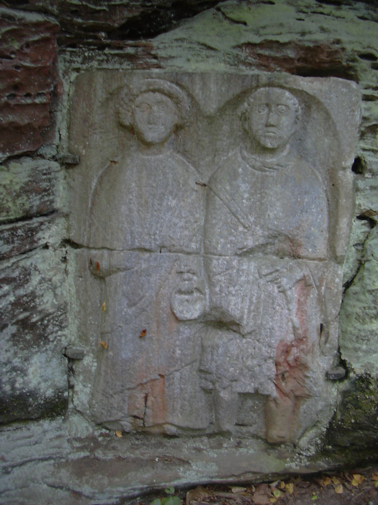 Heidelsburg (Roman castrum), relief of "saltuarius" (forest ranger) near Waldfischbach-Burgalben / Palatinate, Germany